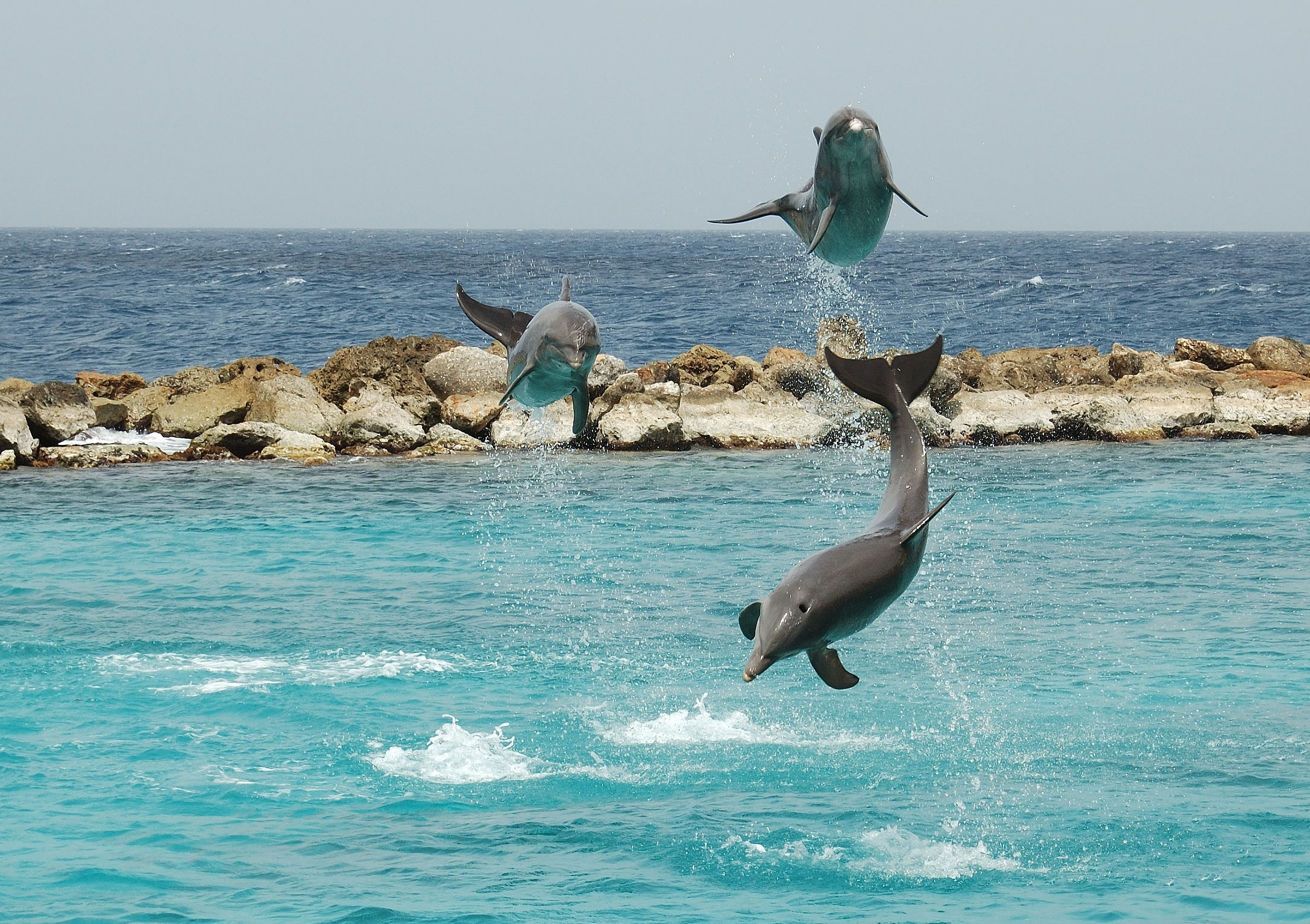 Dolphin show at the Curaçao Sea Aquarium